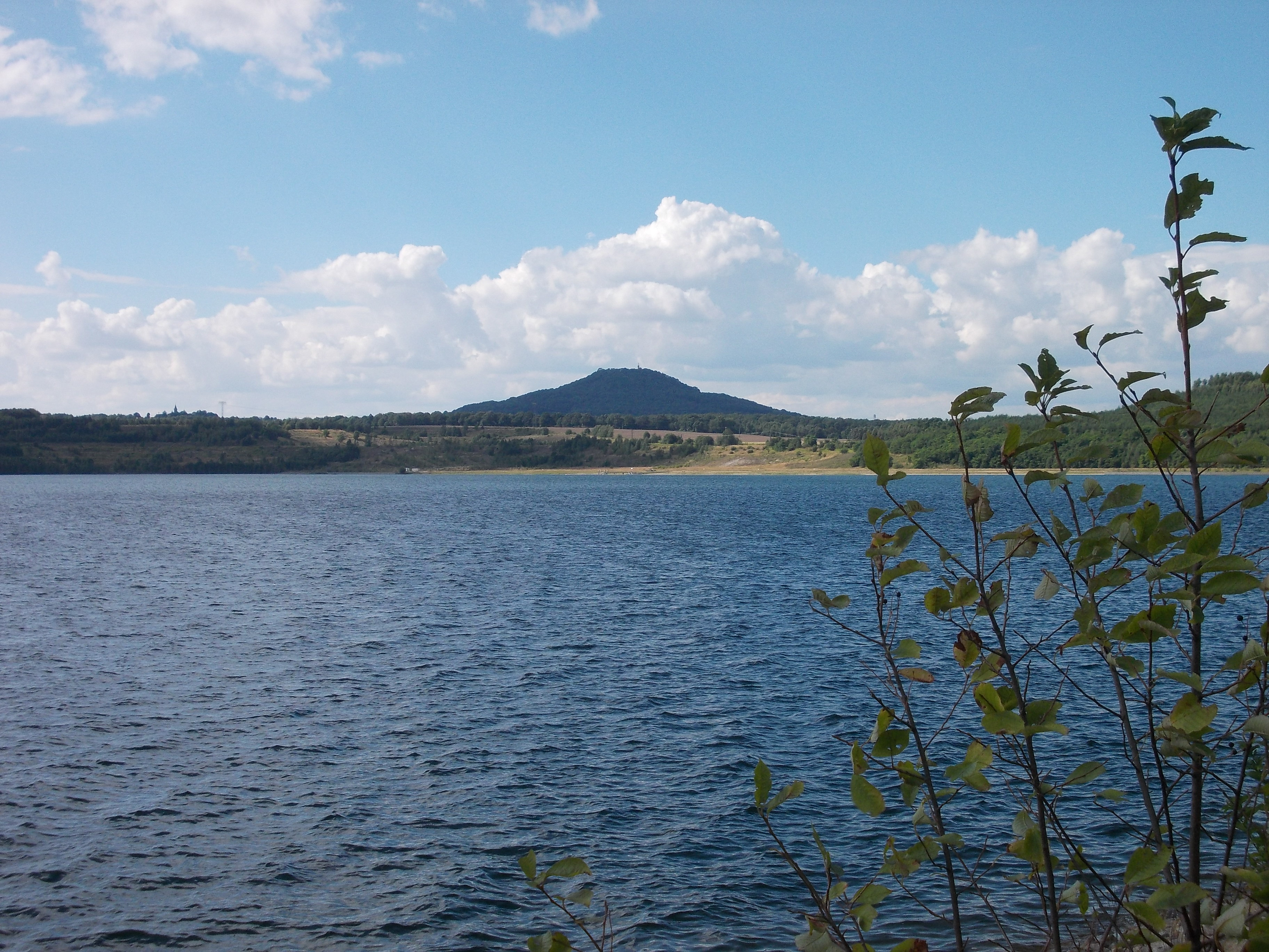 Lake Berzdorf and Landeskrone hill from Deutsch Ossig (Görlitz, Saxony)